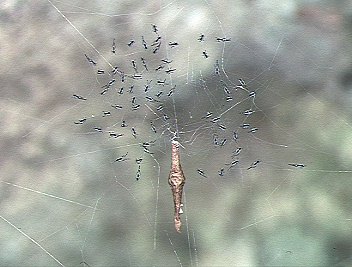 hatchlings of Octonoba yaeyamensis from Okinawa.